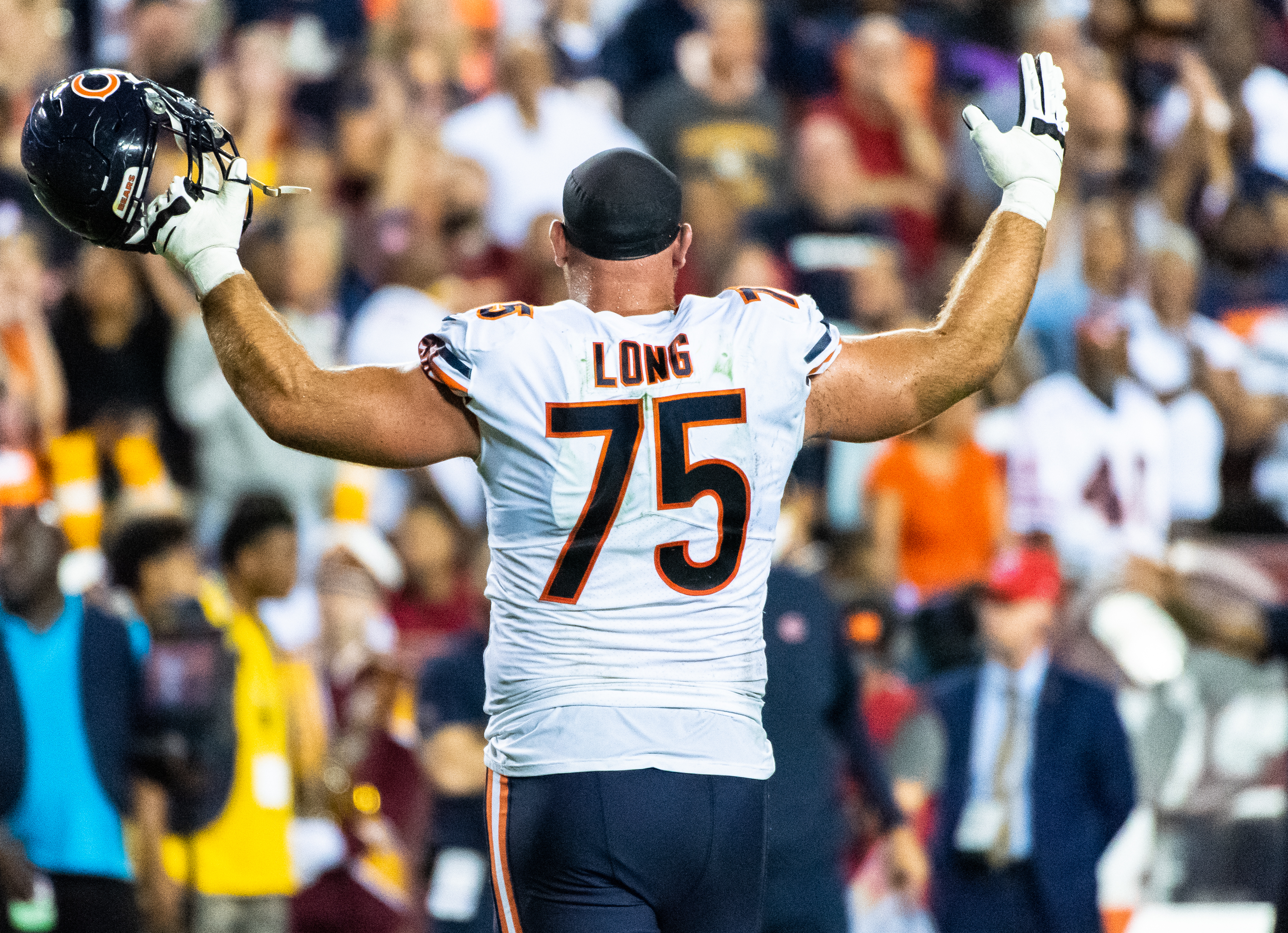 In 2019